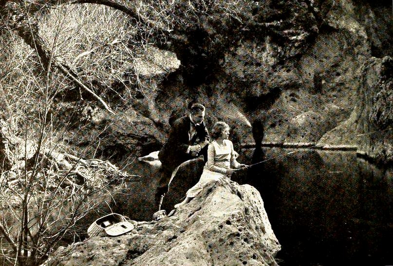 Still from the American film Daddy-Long-Legs (1919) with Mary Pickford and Mahlon Hamilton, on page 16 of the June 1919 Film Fun.